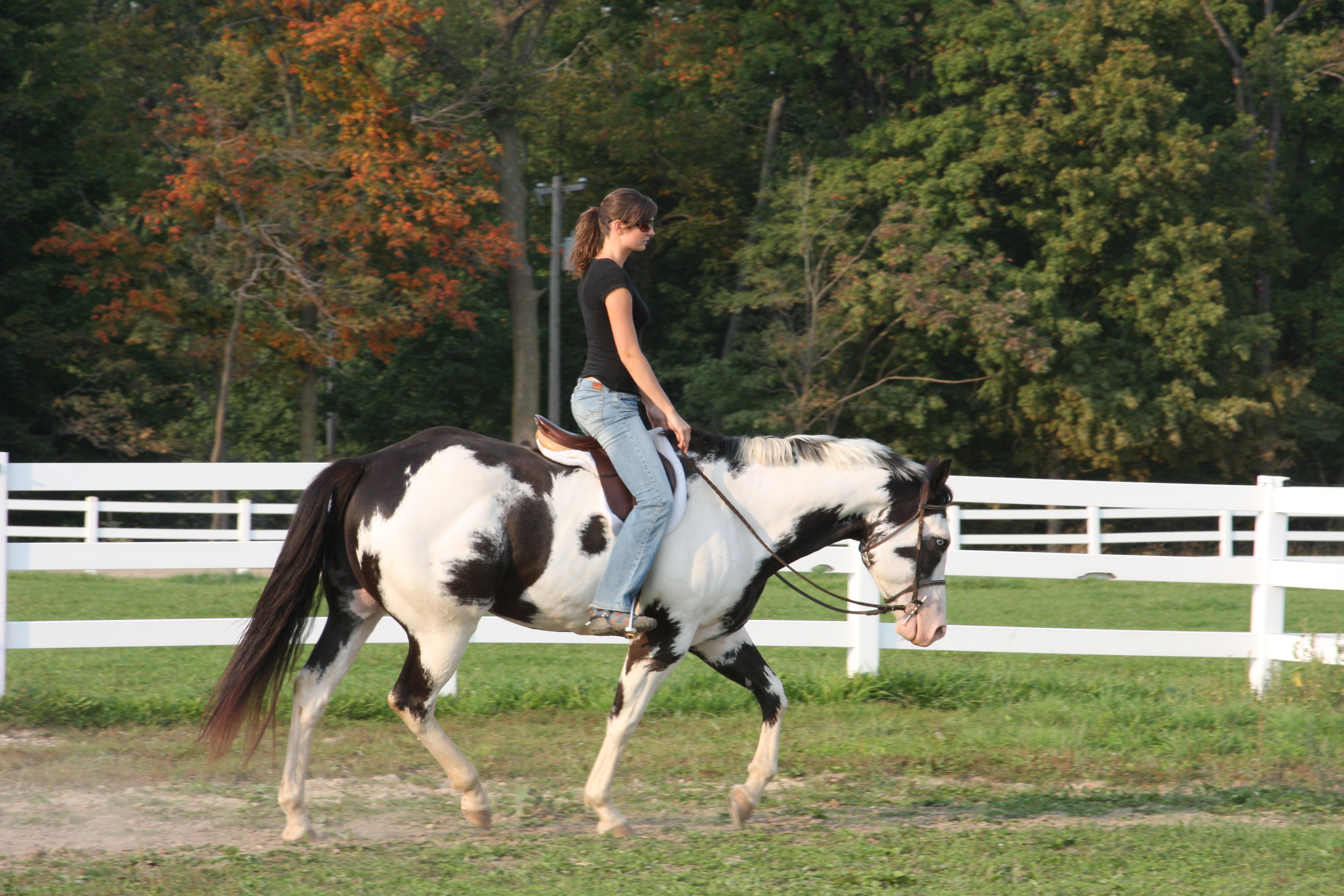 Girl riding a horse in USA.